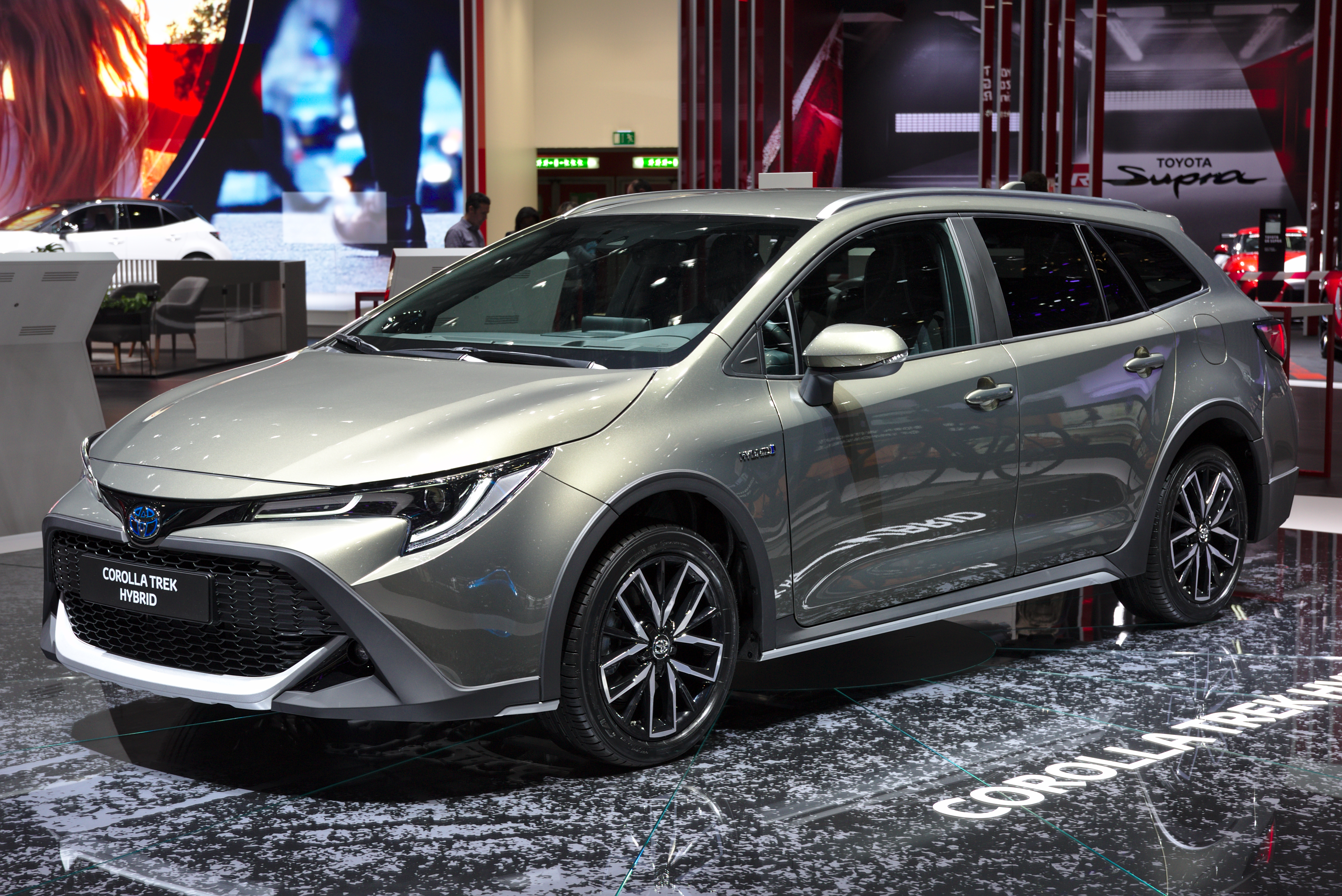 Toyota Corolla Trek Hybrid at Geneva Motor Show 2019